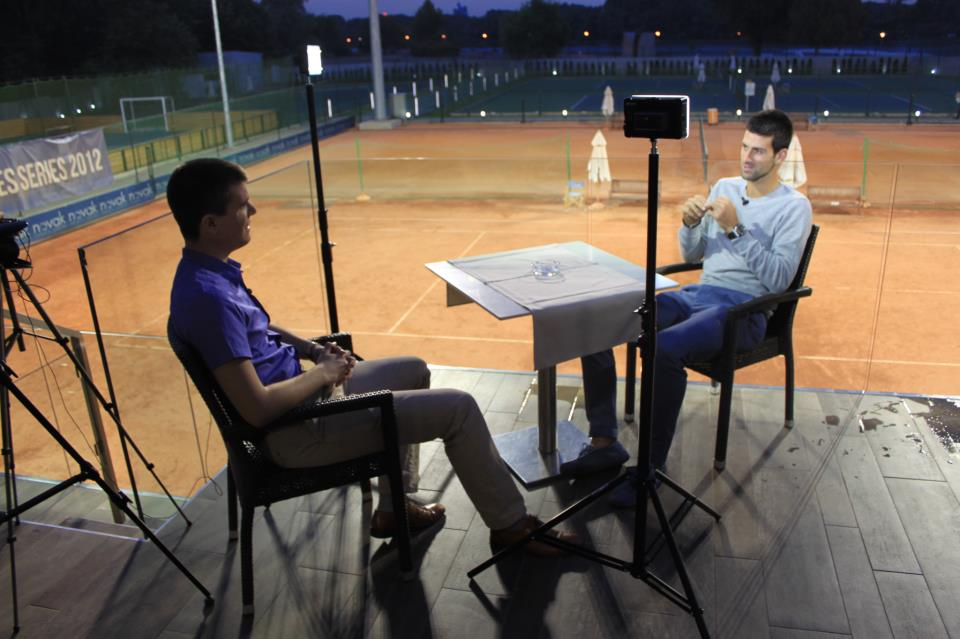 Director Boris Malagurski interviewing tennis player Novak Djokovic for Malagurski's documentary film about Belgrade